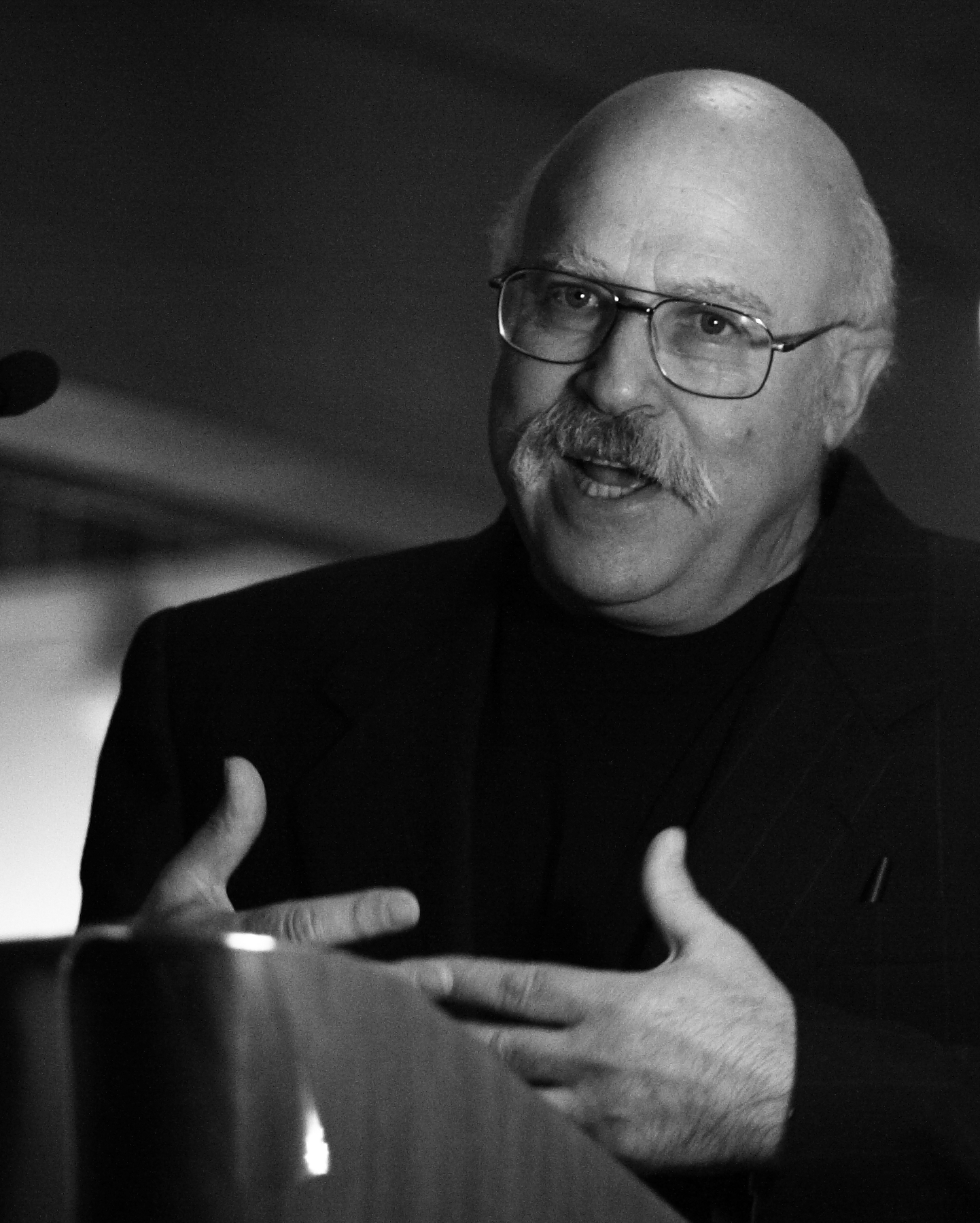 Steven Shapin delivering the Distinguished Lecture at the 2008 History of Science Society meeting